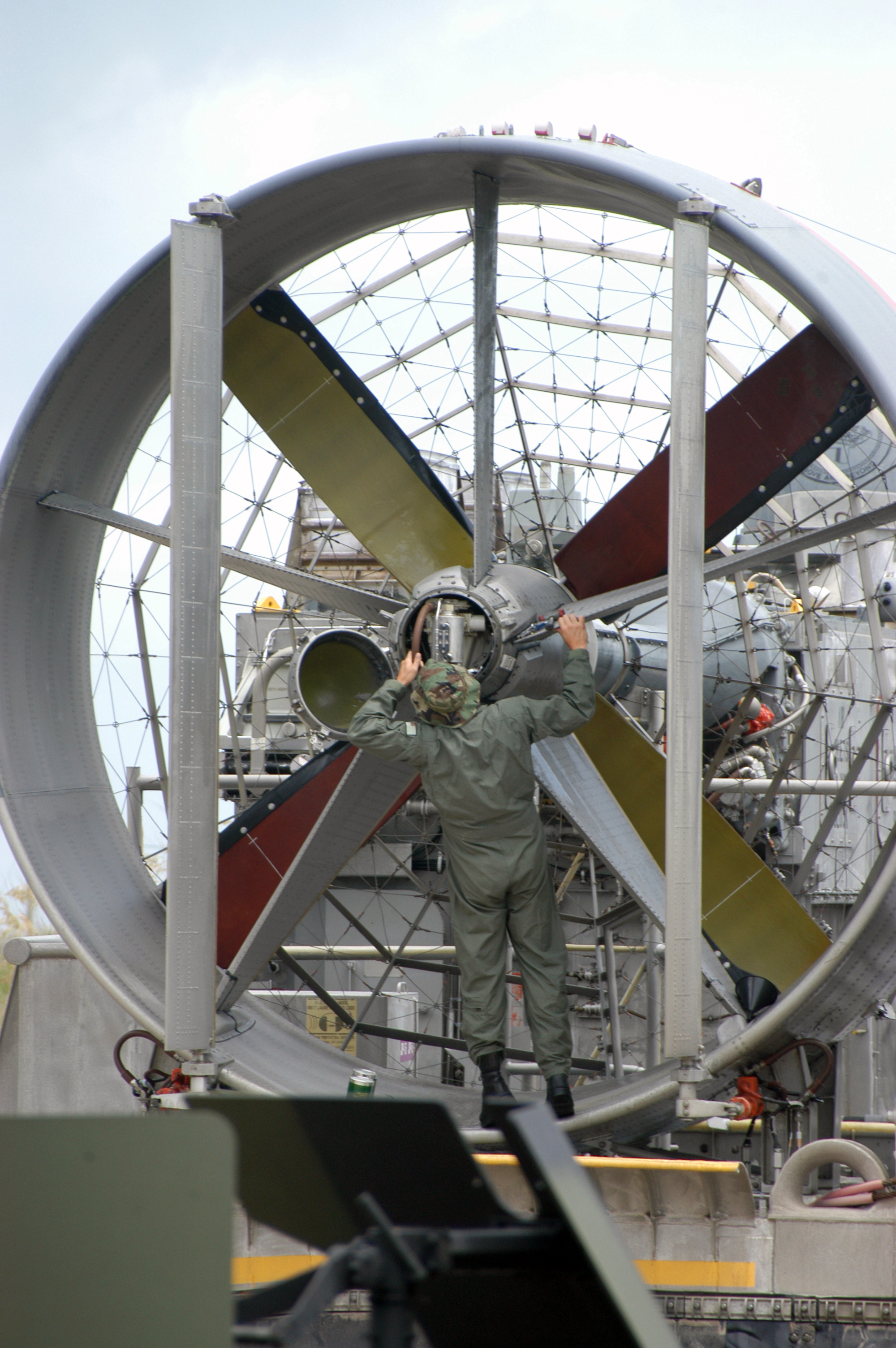 Onslow Beach, N.C. - (Aug. 17, 2006) - A Sailor assigned to Assault Craft Unit Four (ACU 4) stationed at Little Creek Amphibious Base, Va., checks the propeller of a Landing Craft Air Cushion (LCAC) after arriving to the beach as part of a Marines on load aboard the amphibious assault ship USS Bataan (LHD 5). Bataan is underway conducting an Expeditionary Strike Group Integration (ESGINT) with USS Shreveport (LPD 12), USS Oak Hill (LSD 51), embarked elements of Amphibious Squadron (PHIBRON) Two and 26th Marine Expeditionary Unit (MEU) to conduct exercises in preparation for an upcoming regularly scheduled deployment. U.S. Navy photo by Mass Communication Specialist 3rd Class Pedro A. Rodriguez (RELEASED)